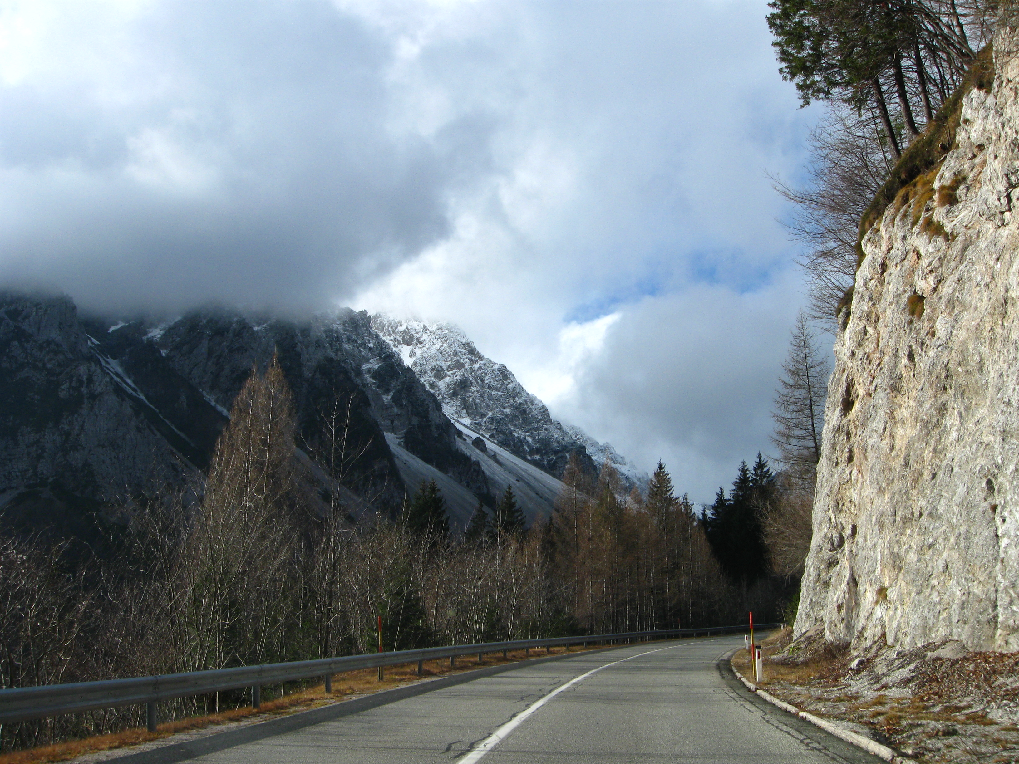 Mountain pass Ljubelj/Loiblpass between Slovenia and Austria.